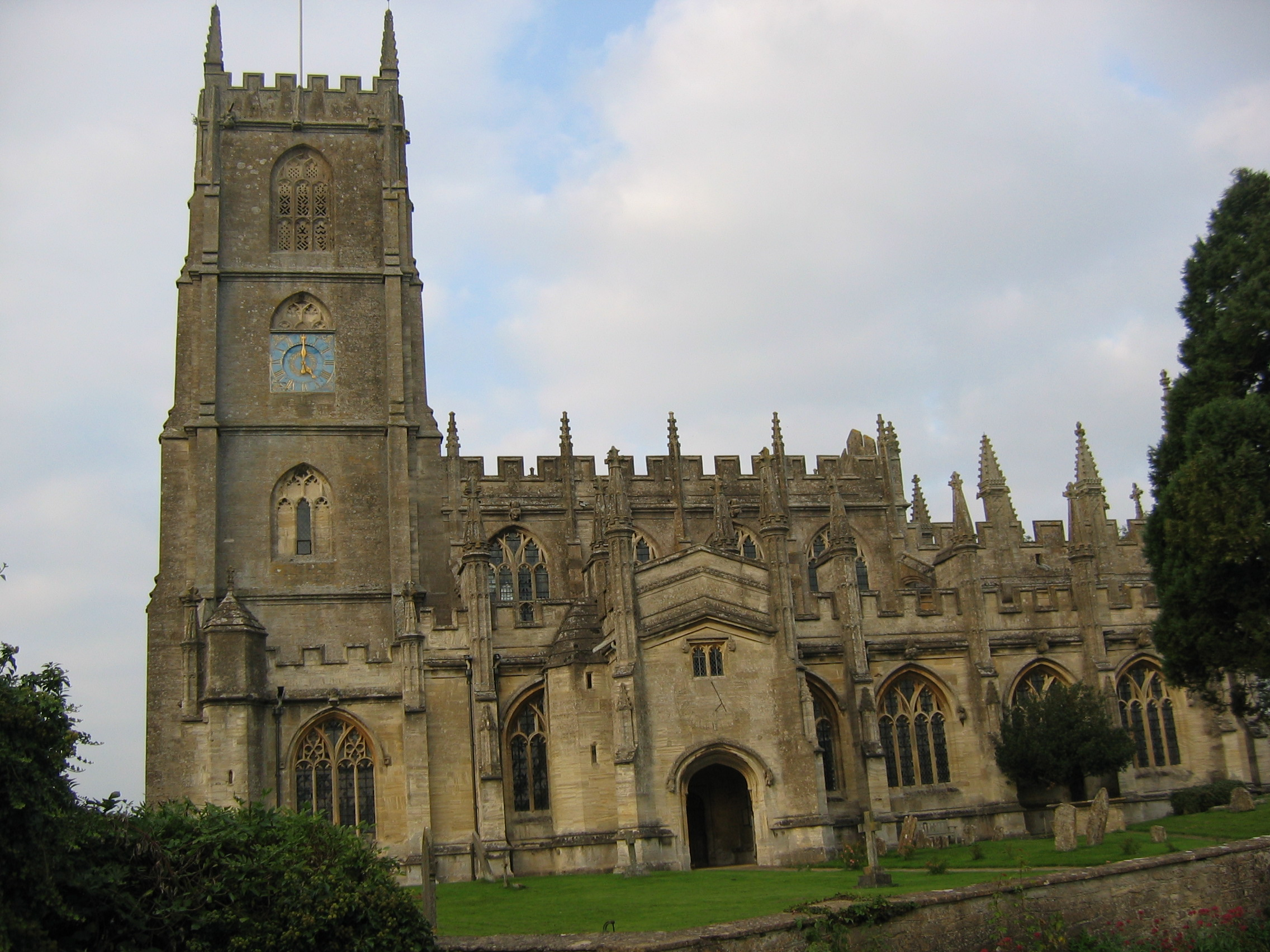 The church of Steeple Ashton